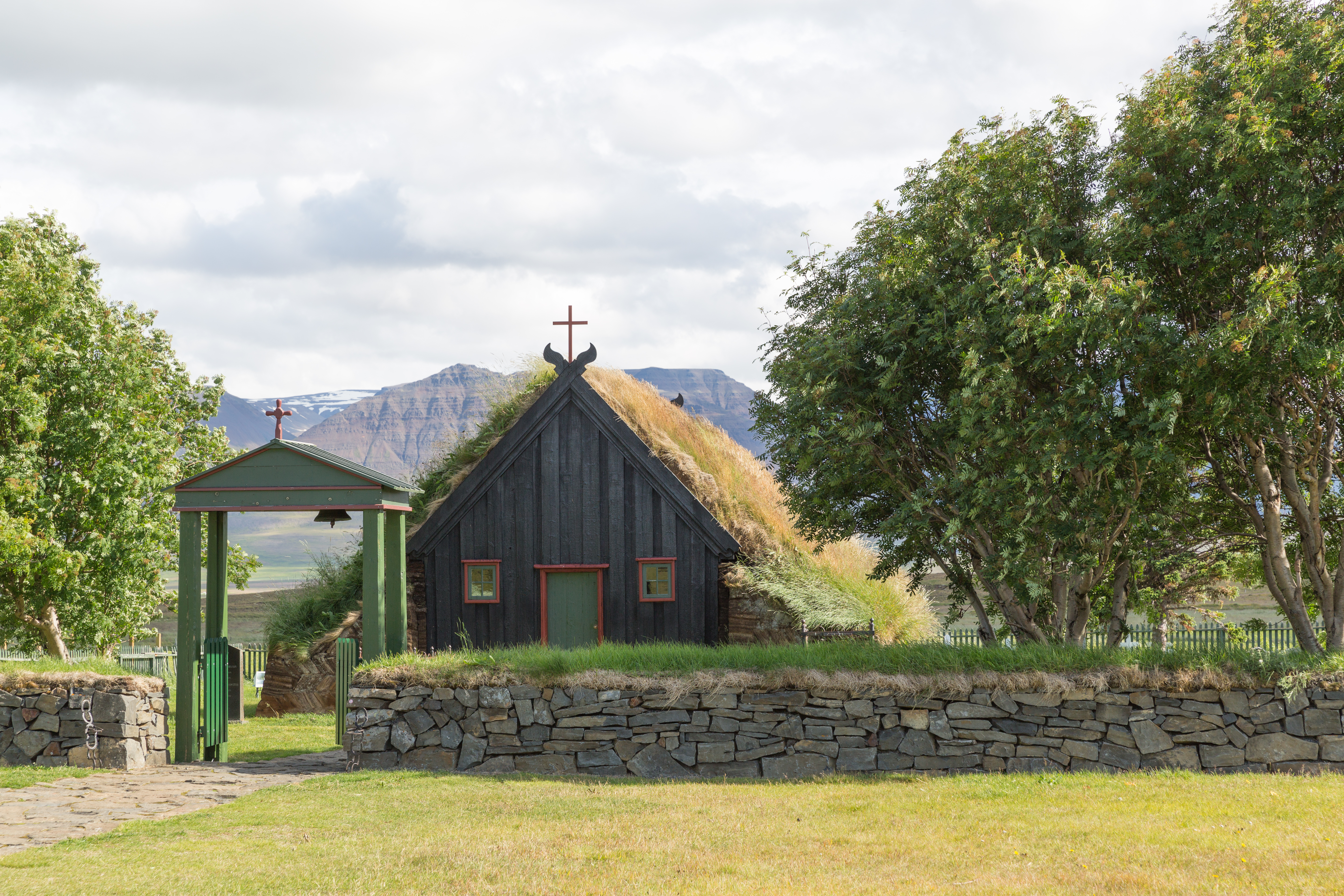 Turf church of Vidimyri